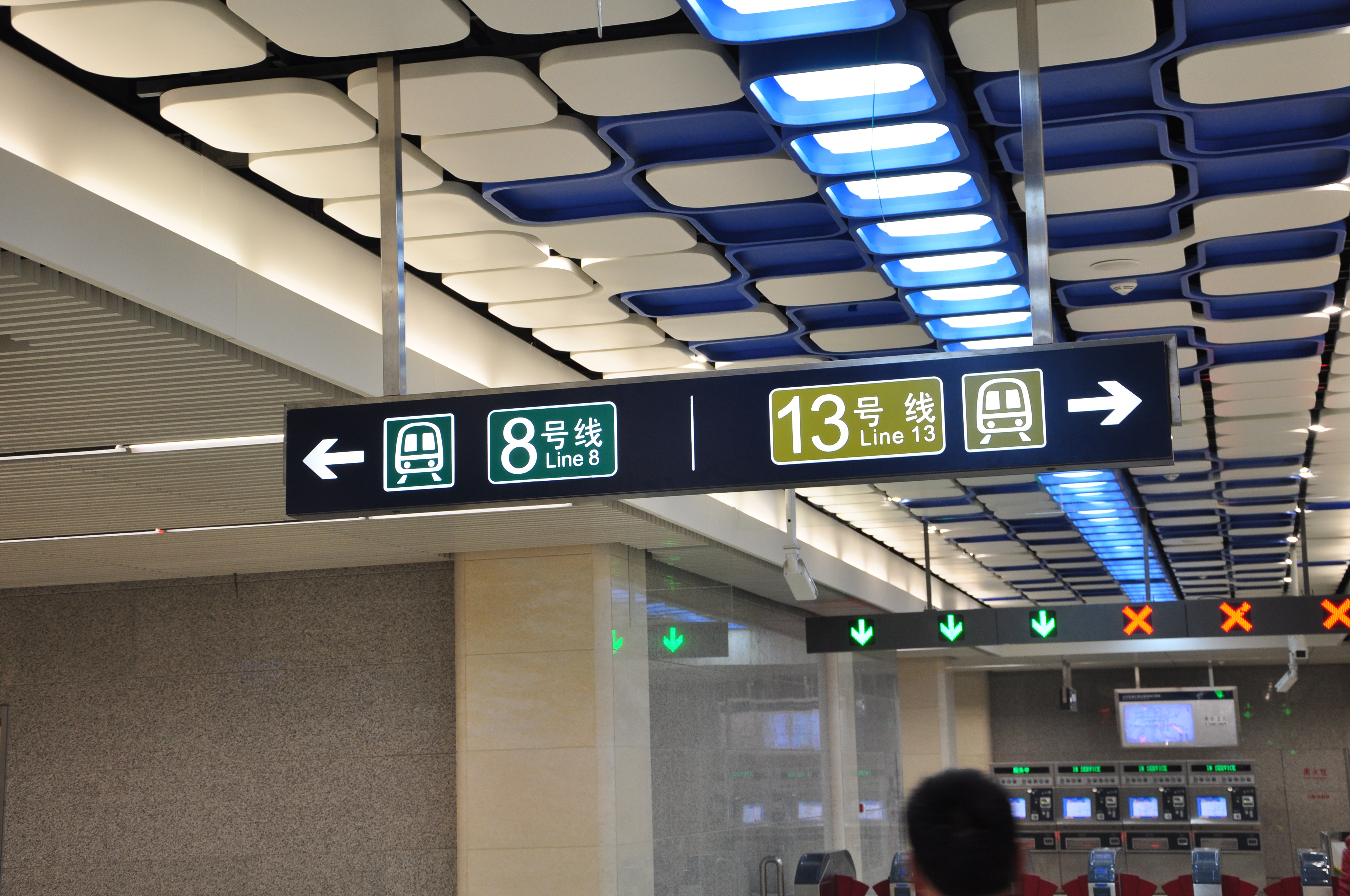 Transfer signs indicating Line 8 and Line 13 in Huoying Station, Line 8, Beijing Subway. The band of light on the ceiling is blue. 中文（中国大陆）: 北京地铁8号线霍营站换乘指示牌。指示牌上标示有8号线和13号线。天花板上的光带是蓝色的。